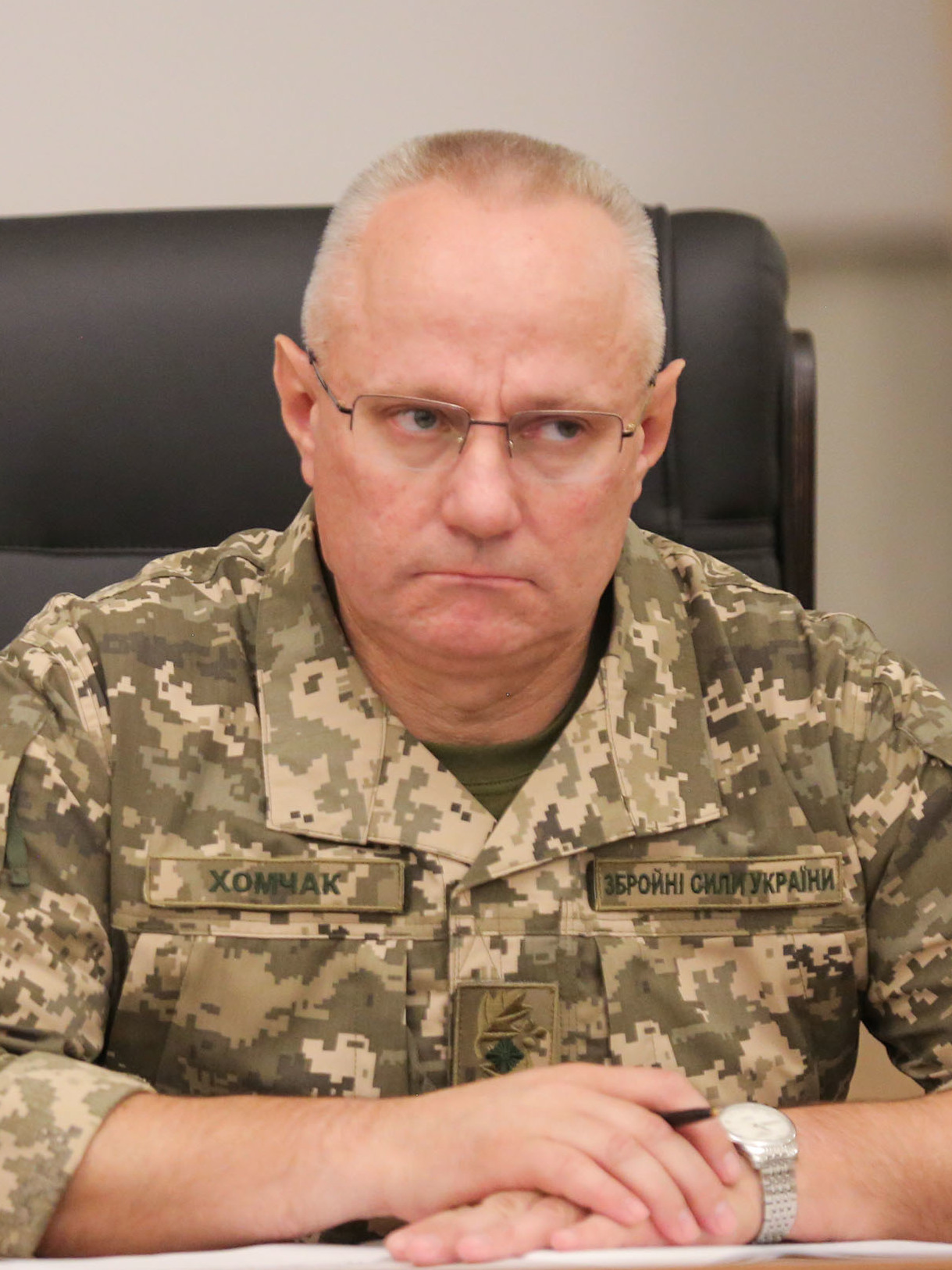 Ruslan Khomchak at the first award ceremony with Wound Medal in Ukraine, Kyiv 2019